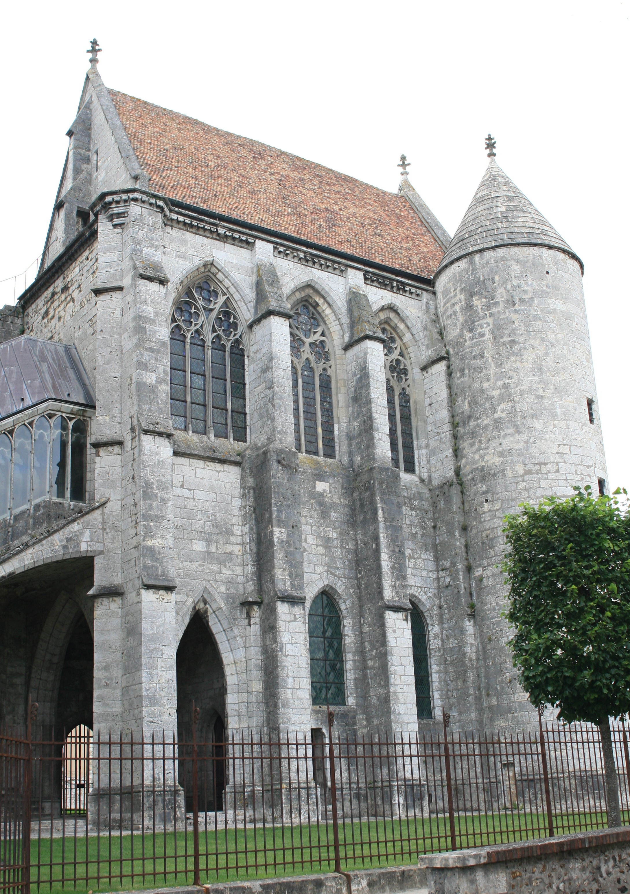 St. Piat Chapel at Chartres Cathedral, as seen from south-west.